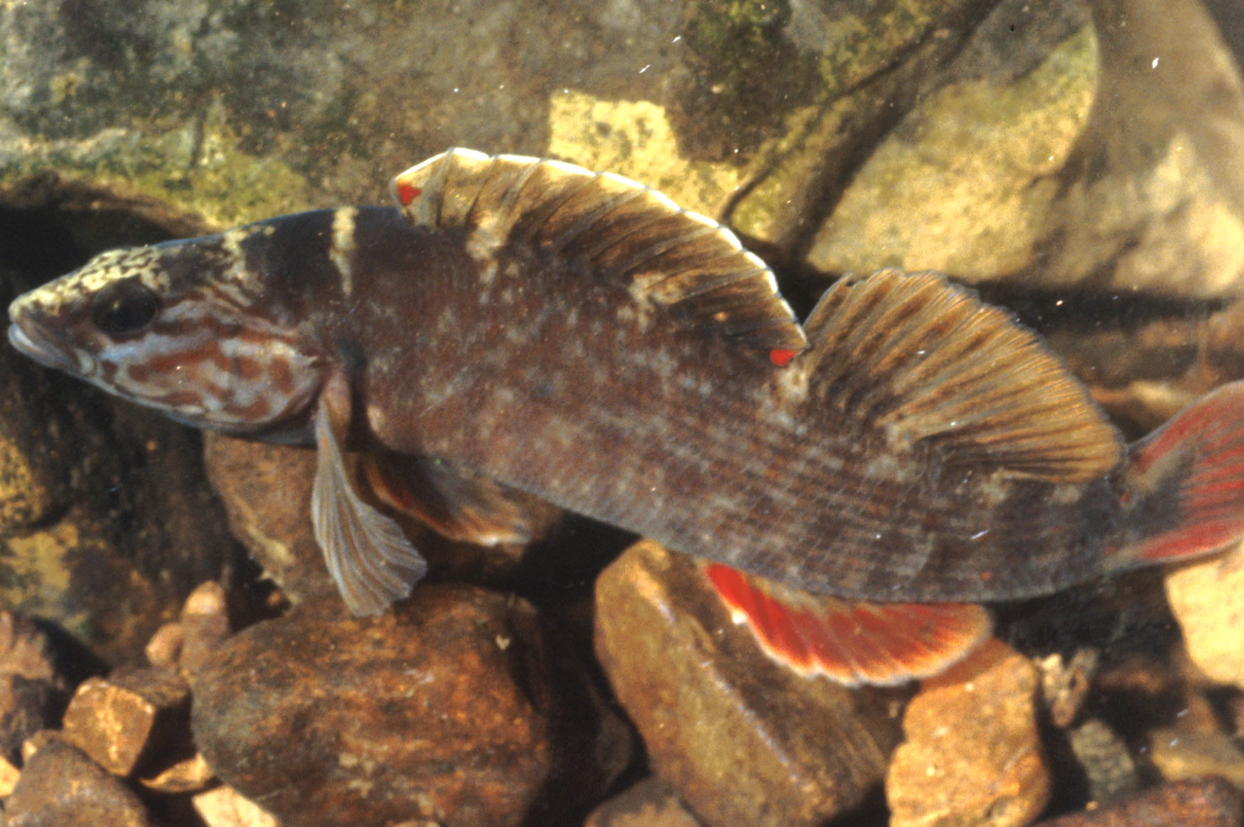 Etheostoma aquali USFWS photo